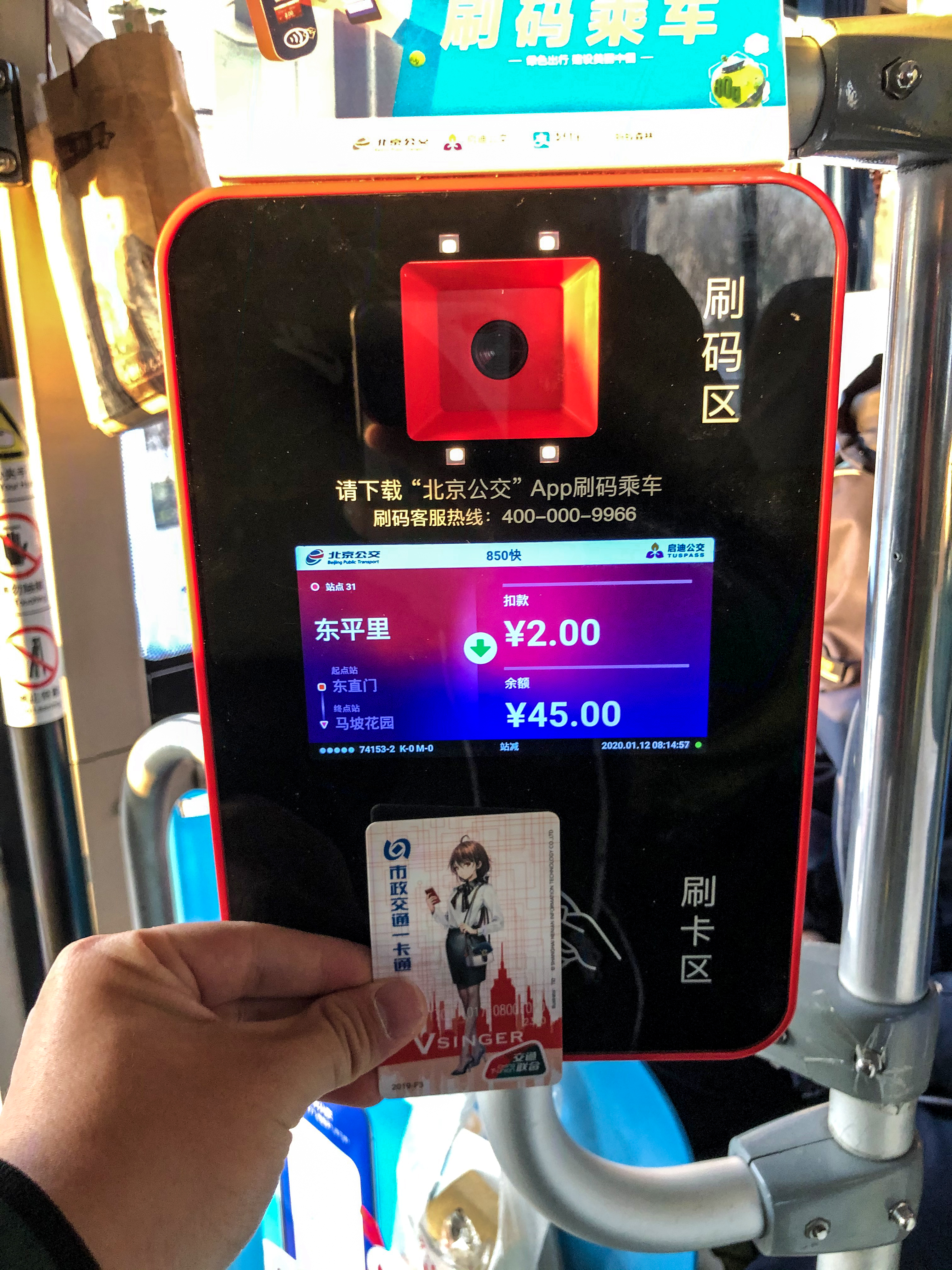 Tapping out at Dongpingli - near airport residence area.